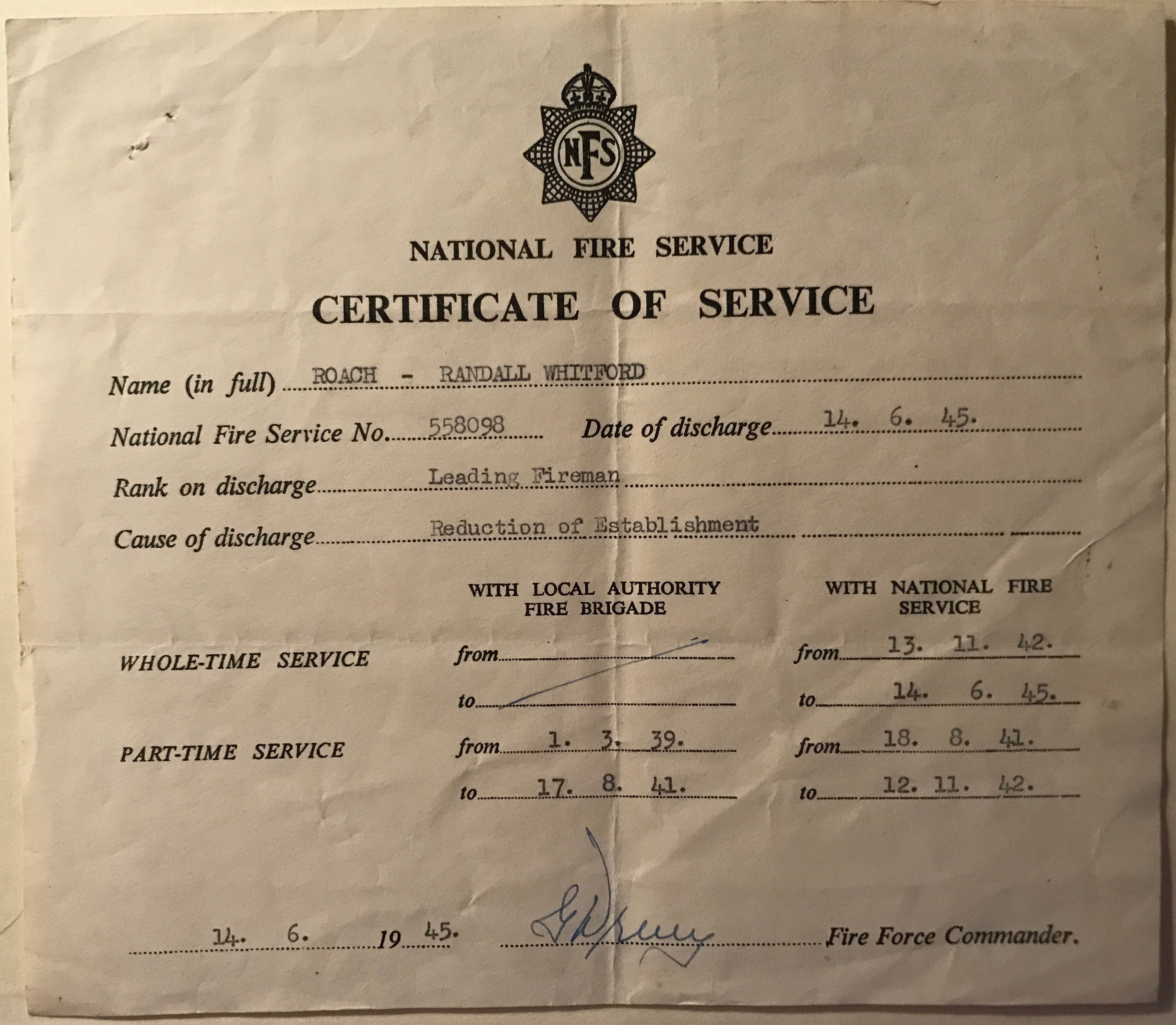 Certificate of Service documents were provided to those who served.